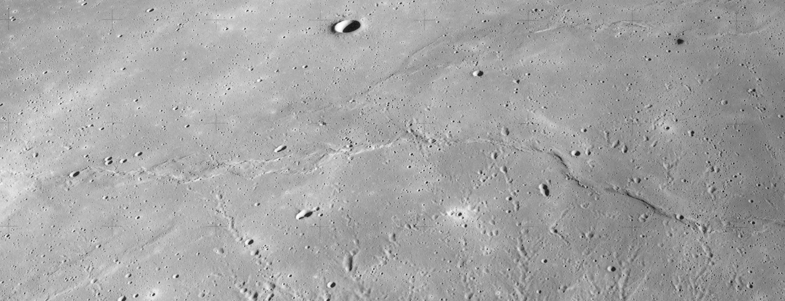 Oblique view of Dorsum Grabau, a wrinkle ridge in Mare Imbrium, on the moon. The crater near top center is Landsteiner. Camera Altitude is 103 km, Sun Elevation is 16° (from right).